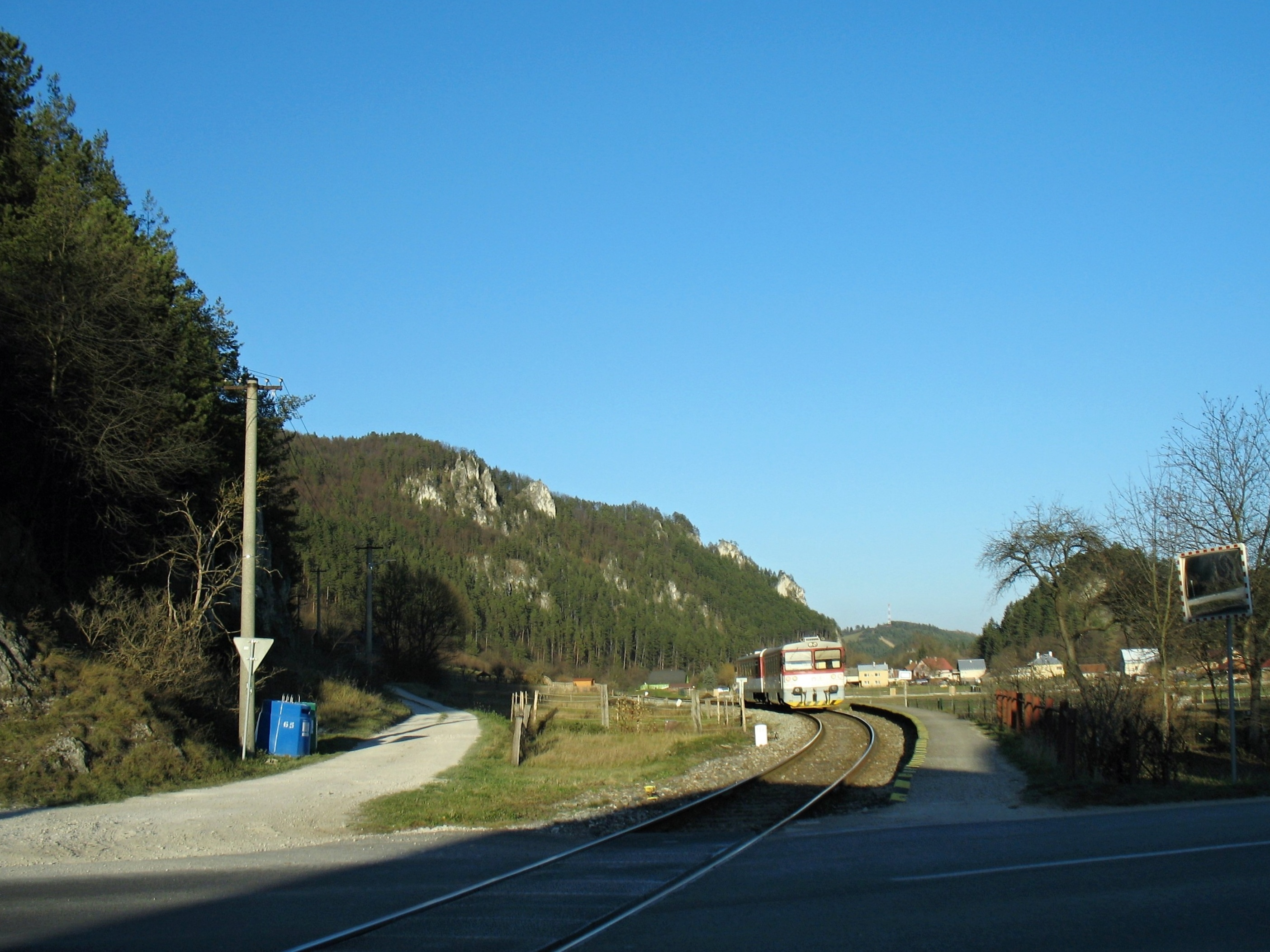 Train station Poluvsie, Žilina District, Slovakia